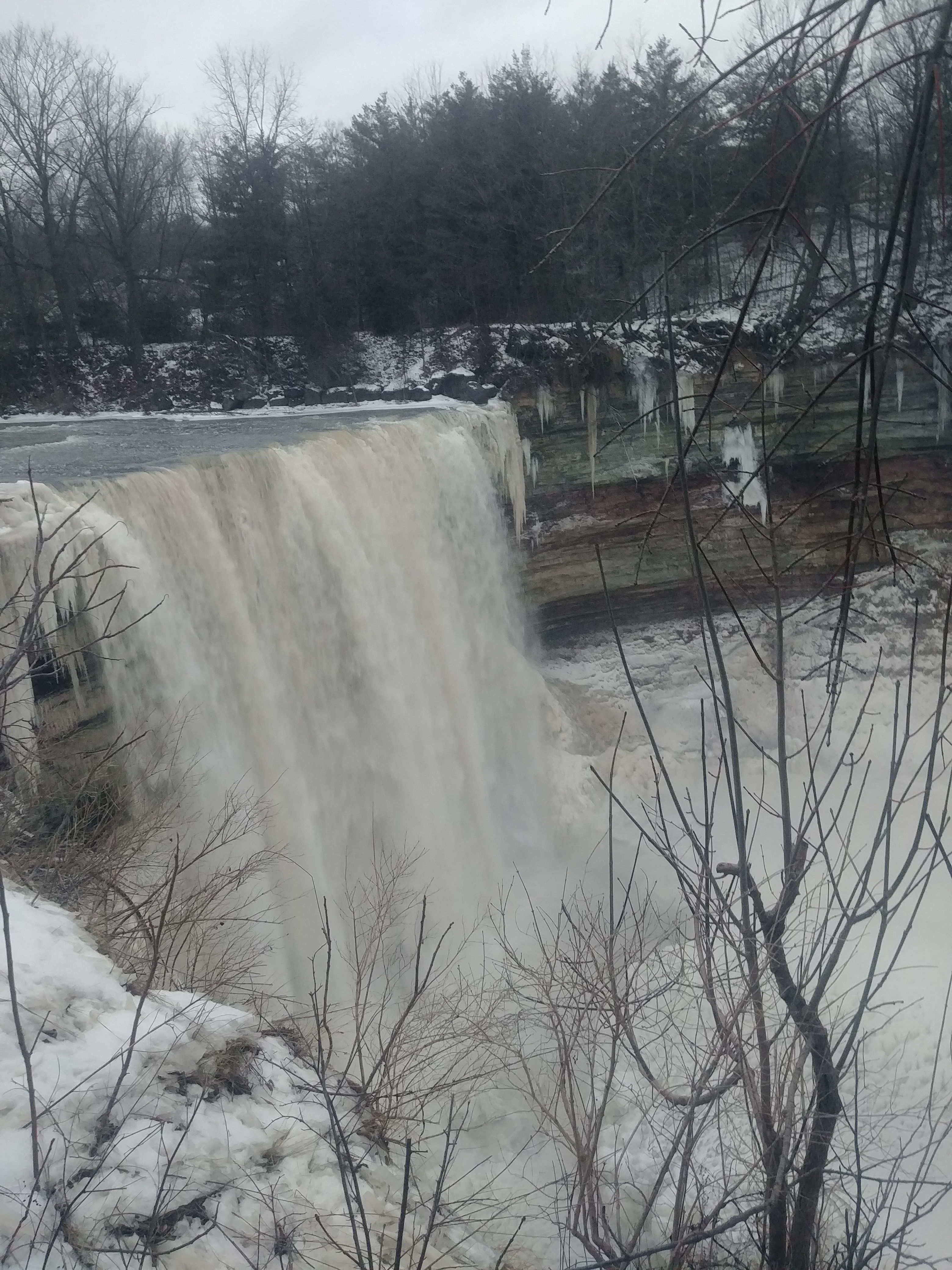 Balls Falls during a cold winter day following a 2 day thaw in Niagara. Lots of runoff water!